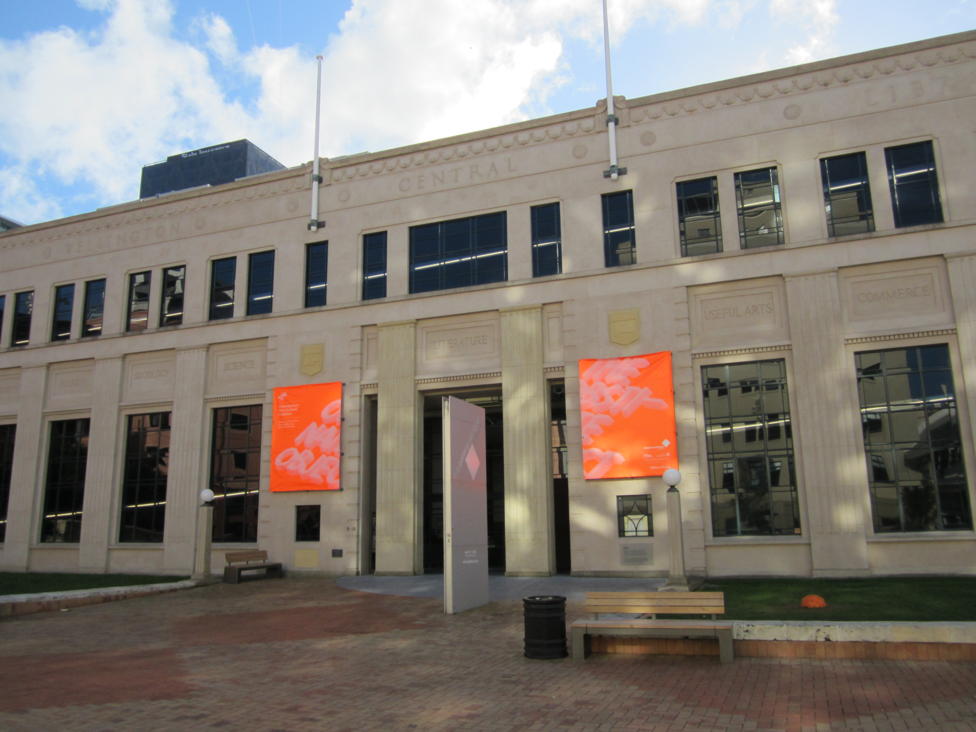 The main entrance of the City Gallery in Wellington